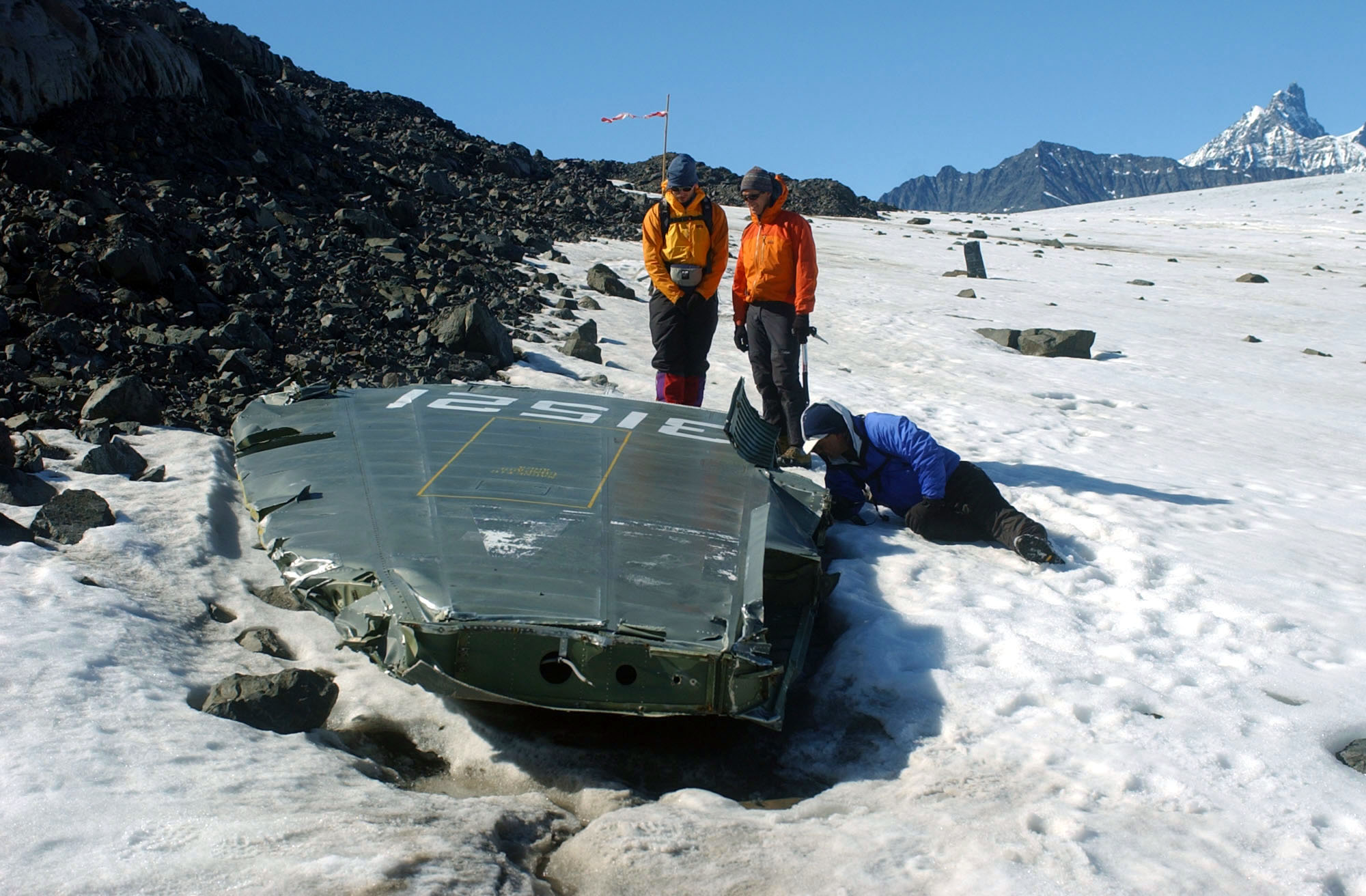 Greenland (Aug. 8, 2004) – Recovery personnel examine the wreckage of a Navy P-2V Neptune aircraft that crashed in Greenland in 1962. The Navy is currently conducting recovery operations in Greenland to bring back any human remains. U.S. Navy photo by Photographer’s Mate 2nd Class Jeffrey Lehrberg (RELEASED)